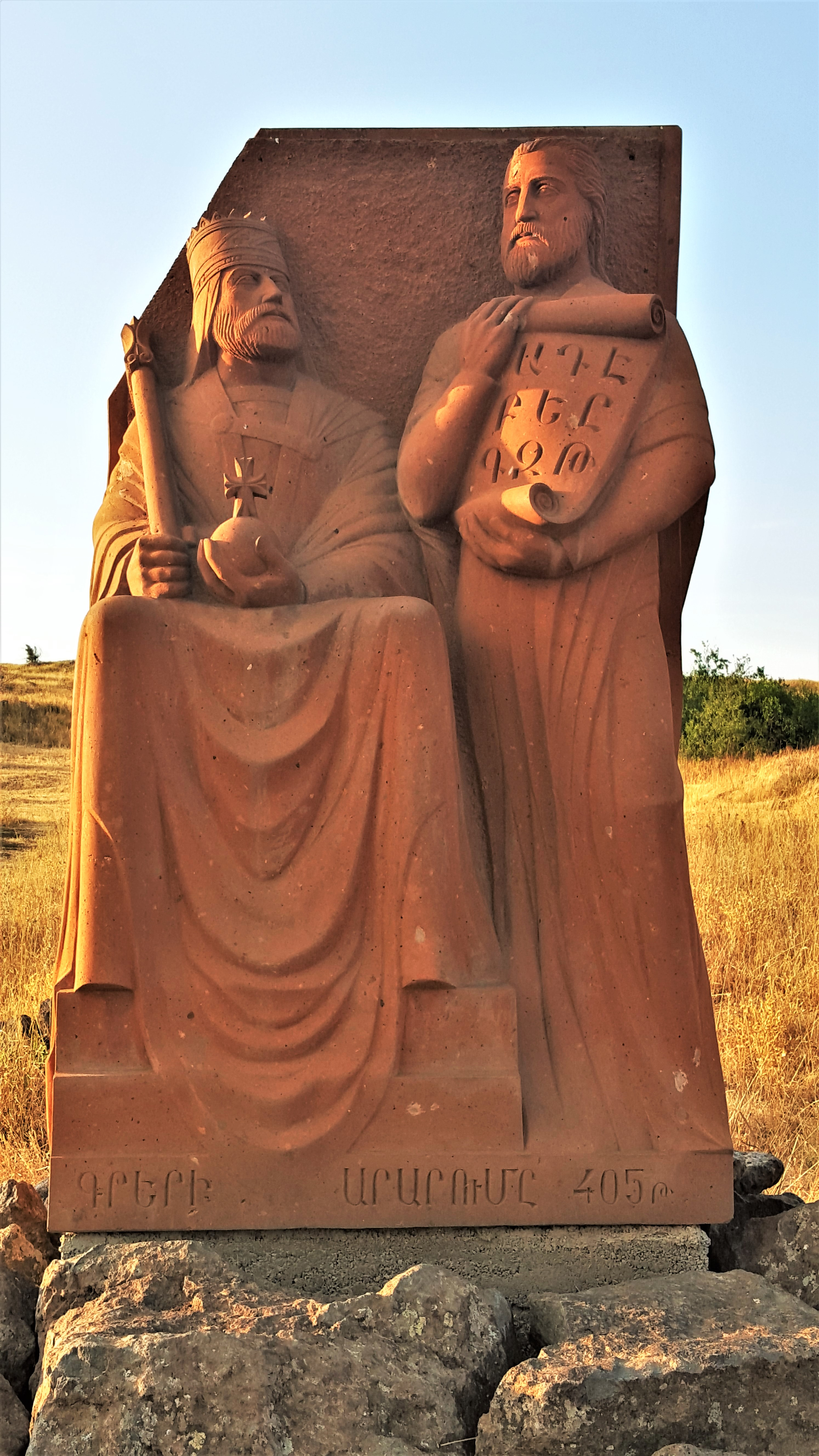 Mesrop Mashtots and Vramshapuh statue near the Armenian alphabet monoment near Aparan, Armenia